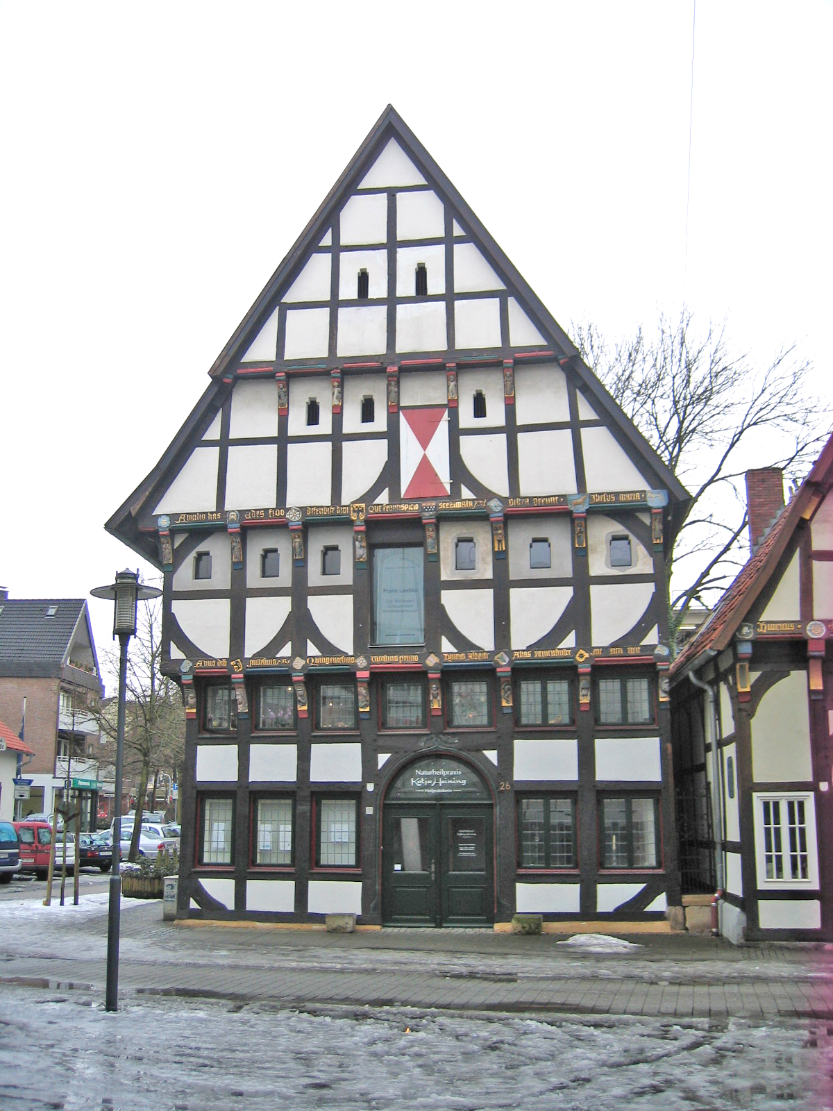 in Herford, District of Herford, North Rhine-Westphalia, Germany.